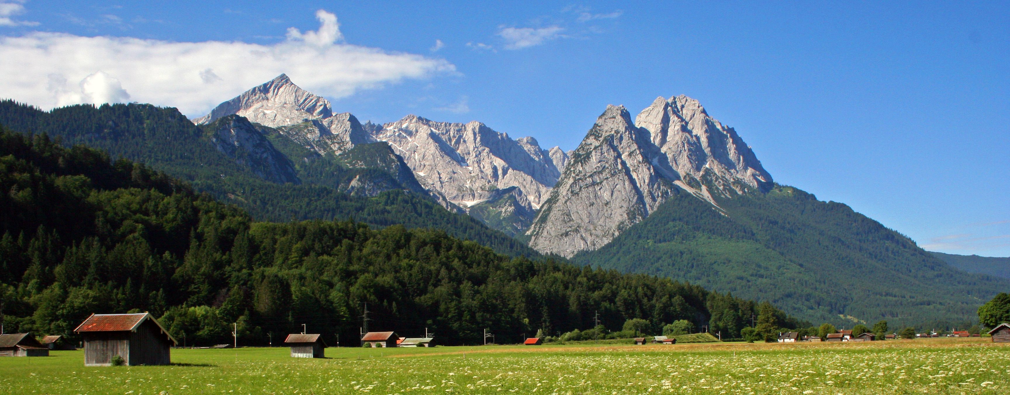 Alpspitze and Waxenstein as seen from the St. Martinstreet in Garmisch